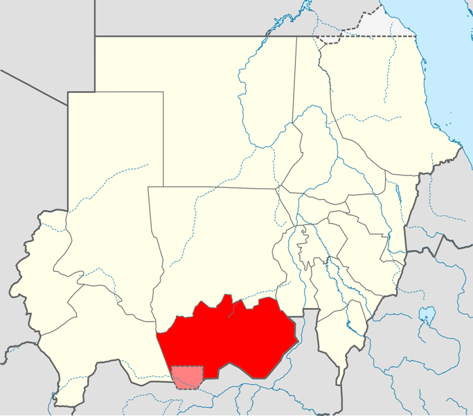 Locator map of South Kurdufan state, in the Kurdufan region — in post-2011 Sudan. Locator map according to Protocol of Comprehensive Peace Agreement (In 2005 territory of West Kurdufan divided between North and South Kurdufan States). Abyei area in pink.